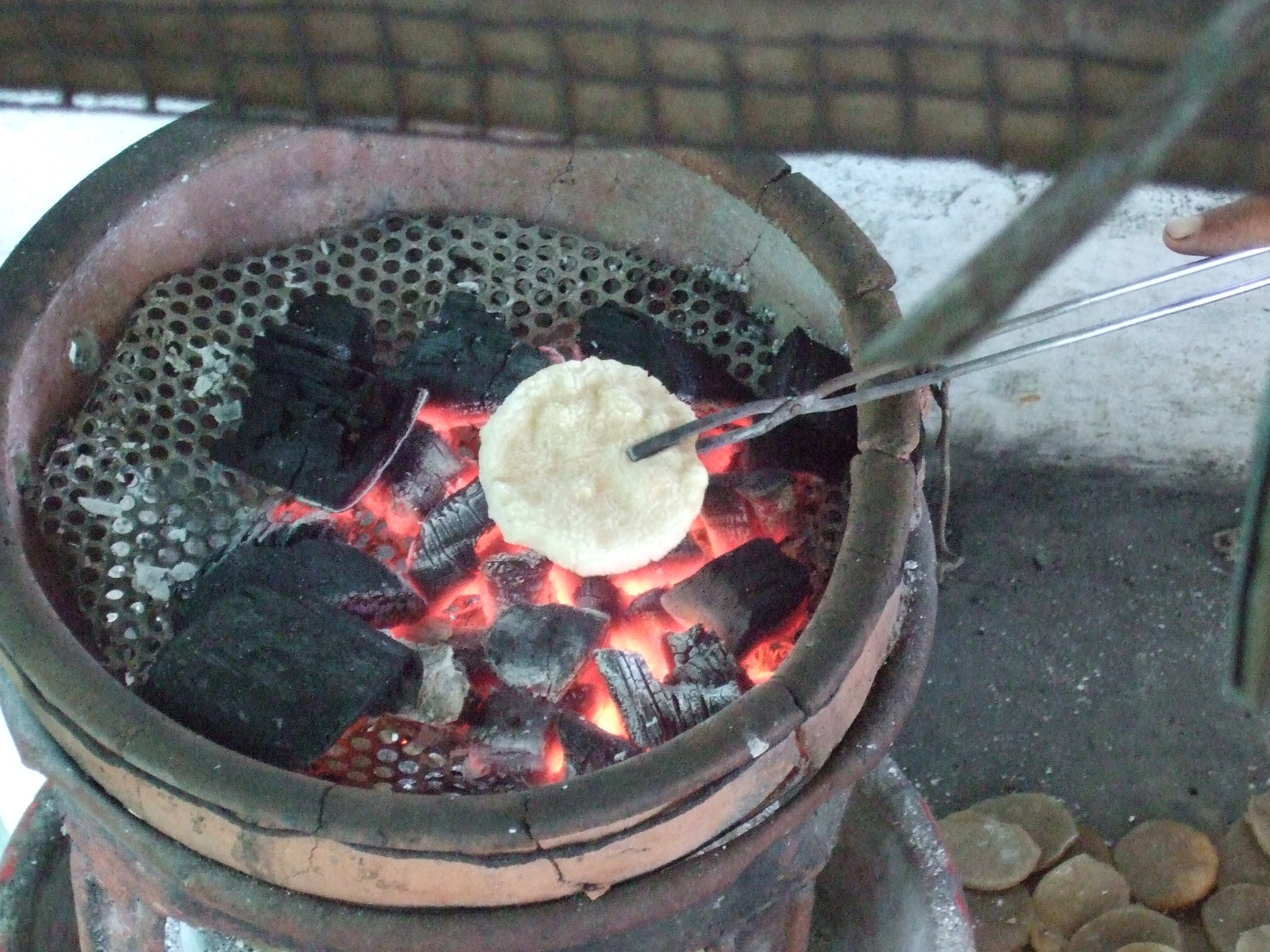 Preparing fish crackers, Bandar Lampung, Indonesia